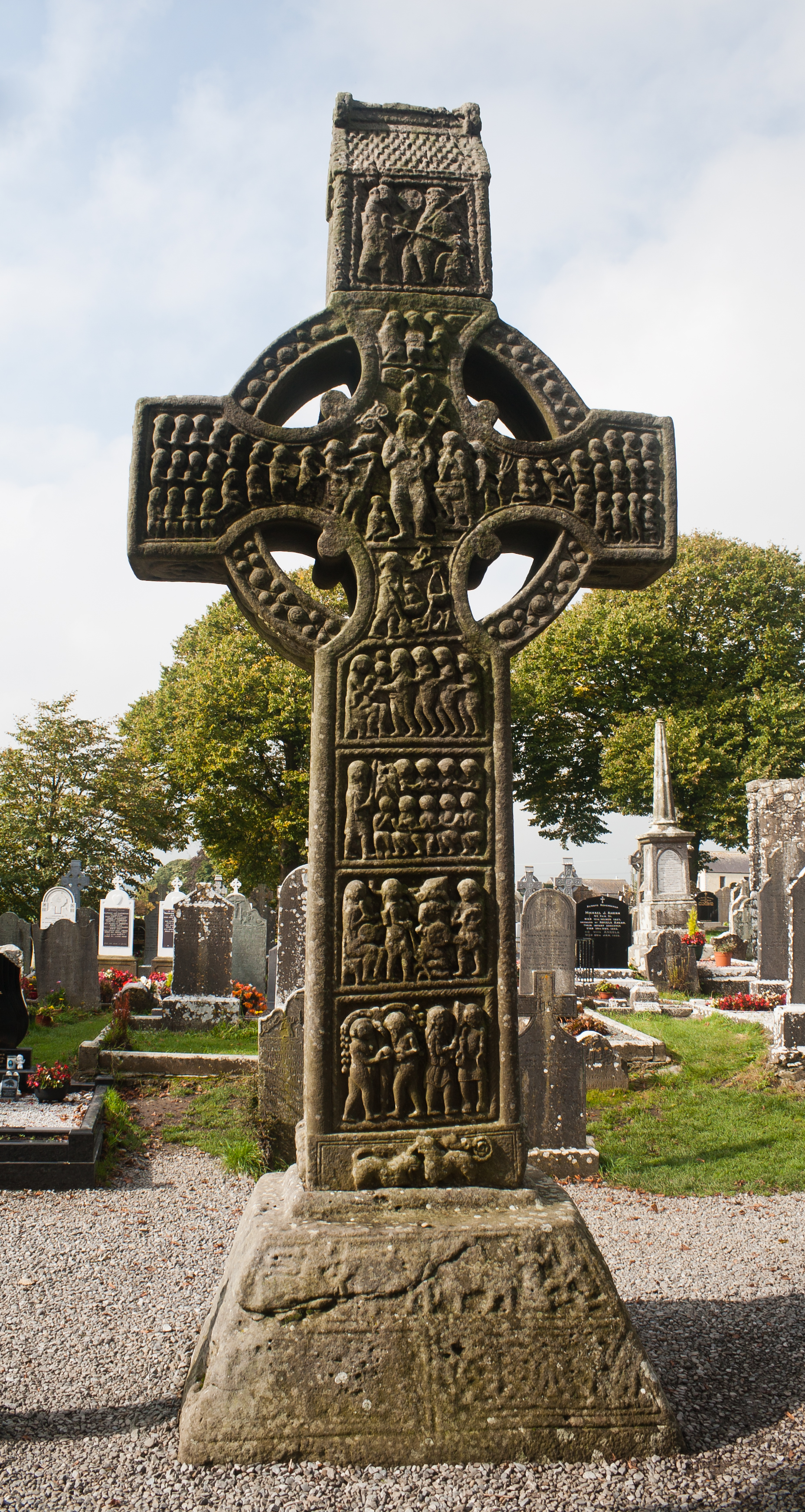 East face of the south cross, also called Muiredach's Cross and dated 922/3 as Muiredach Mac Domhnail died at that time. See entry 954 and description on p. 245 in Victor M. Buckley and P. David Sweetman: Archaeological Survey of County Louth, ISBN 0-7076-0168-1.